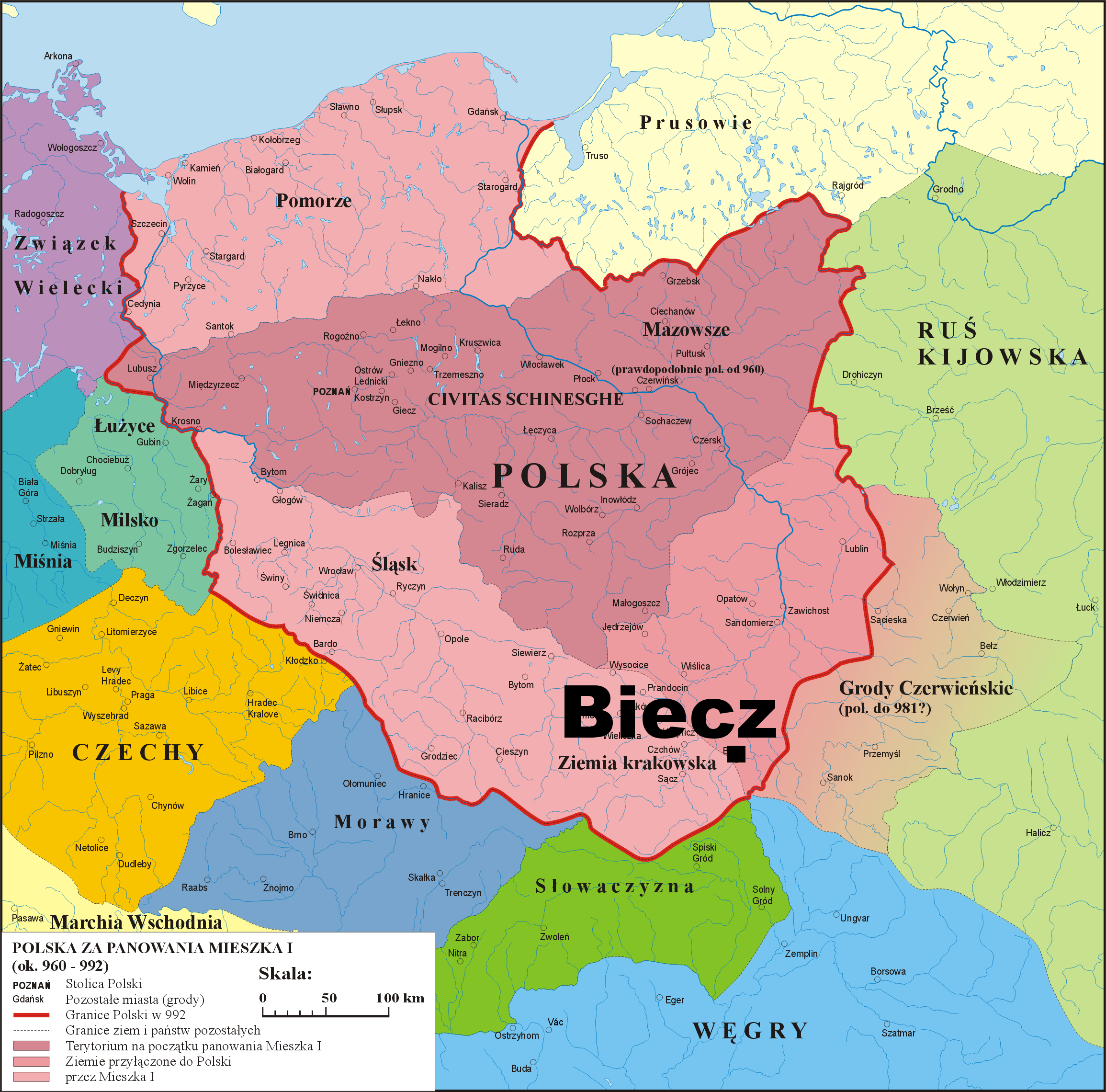 Map of Poland (960-992) with Biecz.